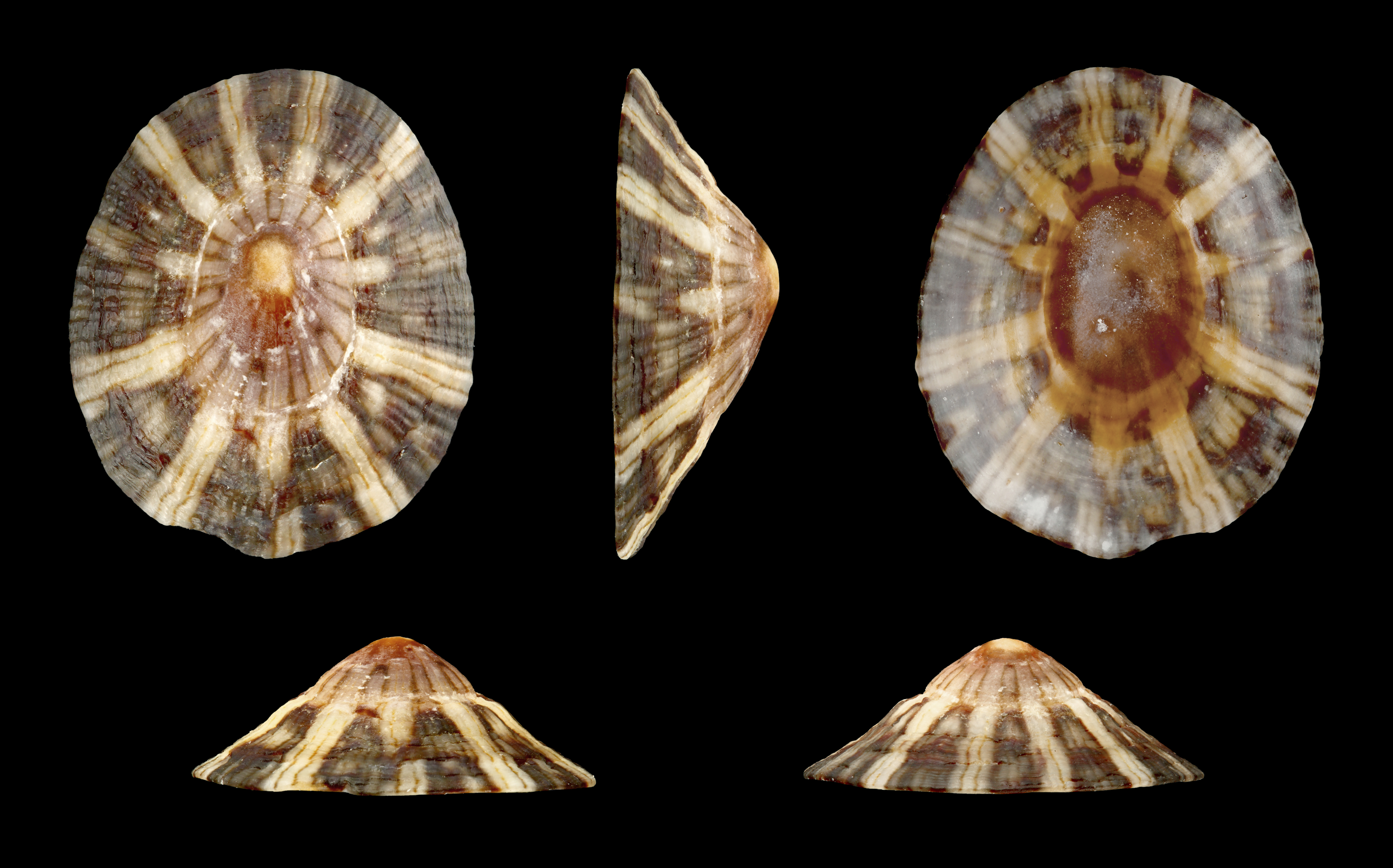 Rayed Limpet; Length: 1.8 cm; Originating from Beruwala, Sri Lanka; Shell of own collection, therefore not geocoded. Dorsal, lateral (left side), ventral, back, and front view.